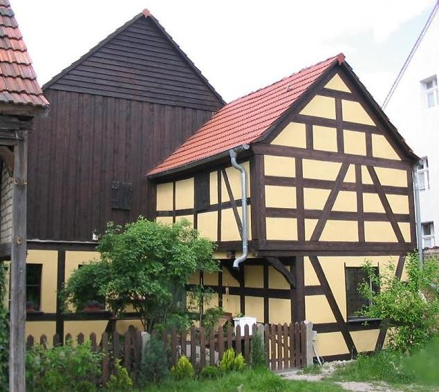 Historical timber framing Spiekerhus or Nuthe-Nieplitz-Haus in Kemnitz. Kemnitz is a village (part) of the municipality Nuthe-Urstromtal in Brandenburg, Germany